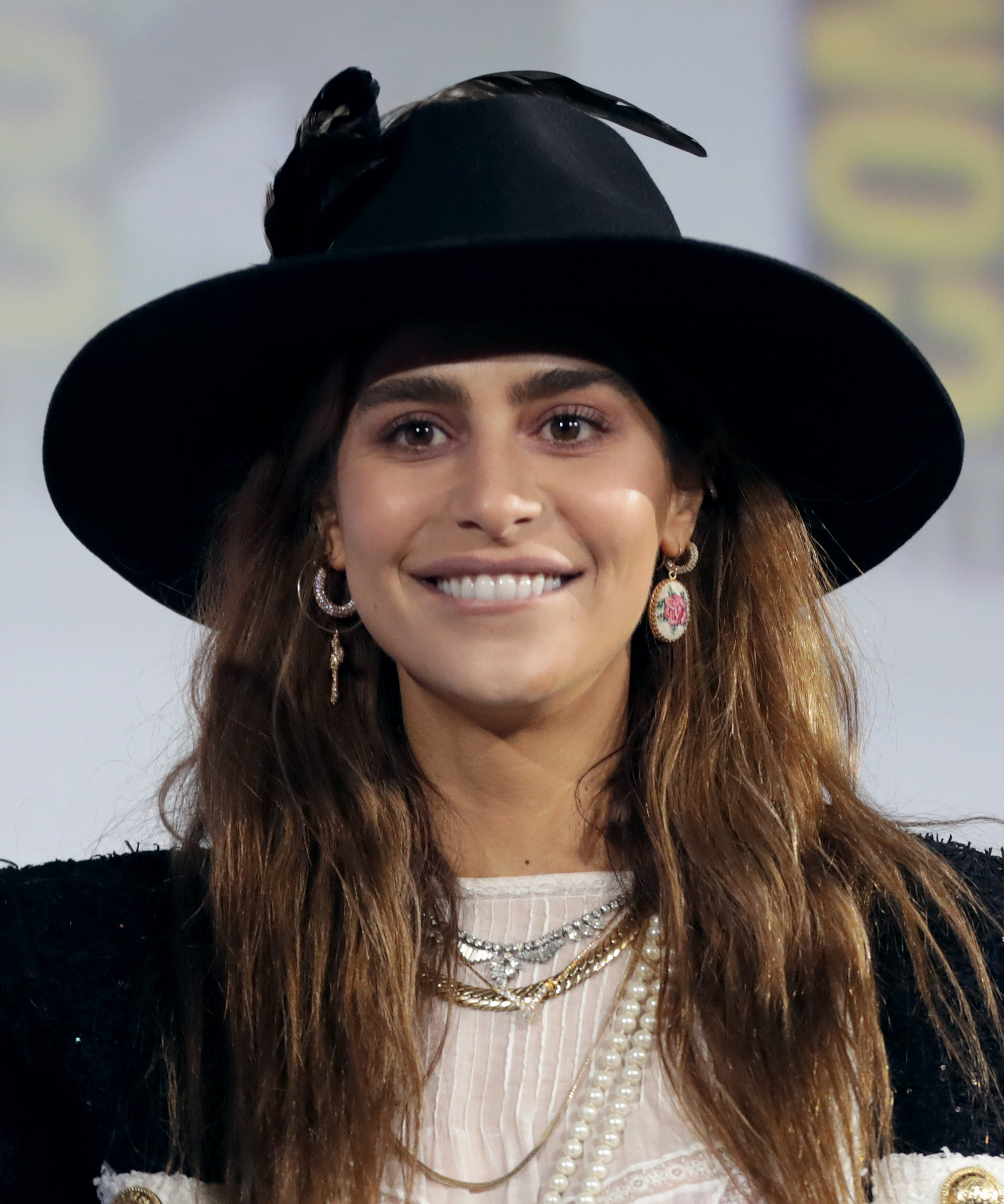 Nadia Hilker speaking at the 2019 San Diego Comic-Con International in San Diego, California.